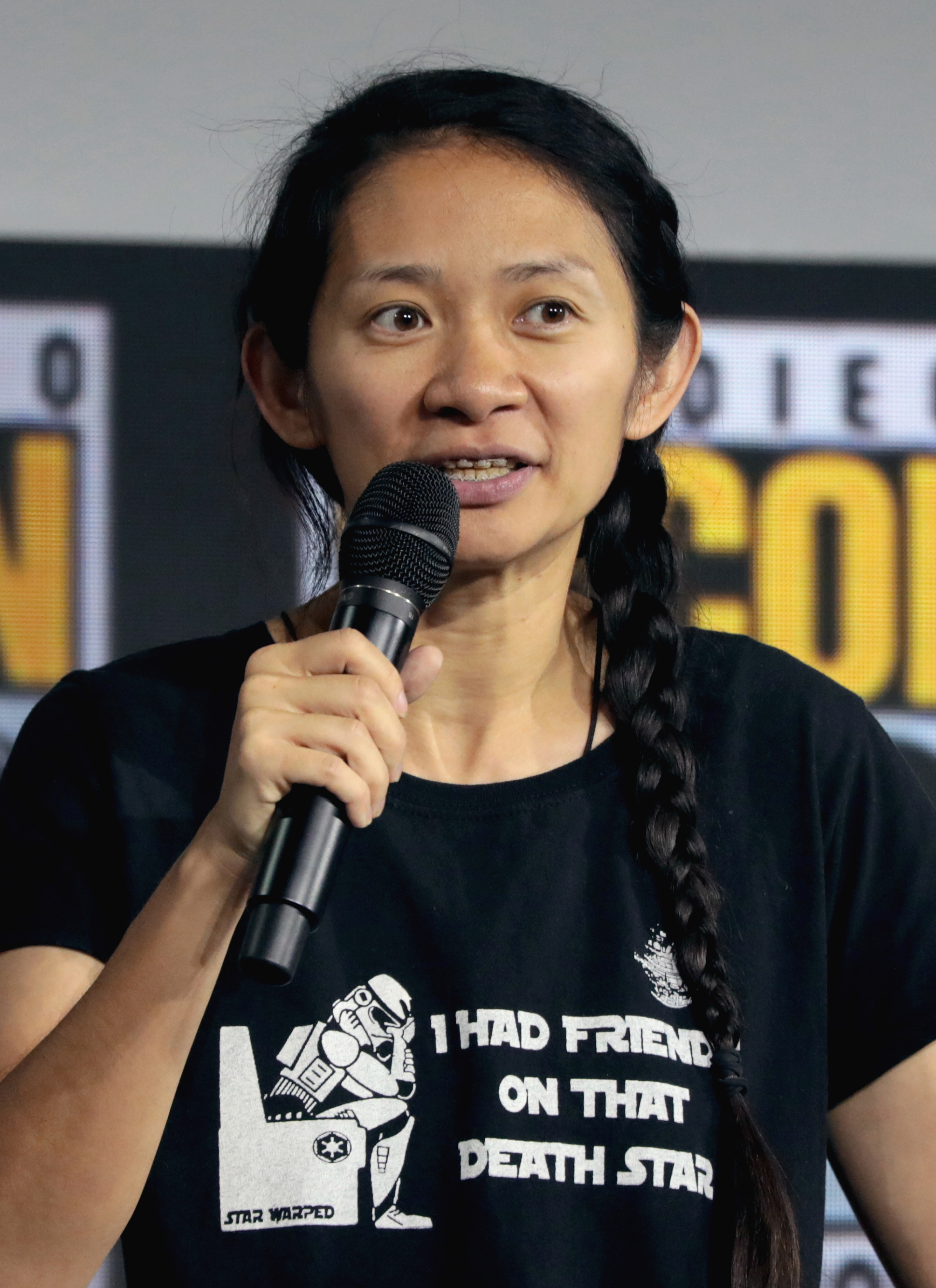 Chloe Zhao speaking at the 2019 San Diego Comic-Con International in San Diego, California.